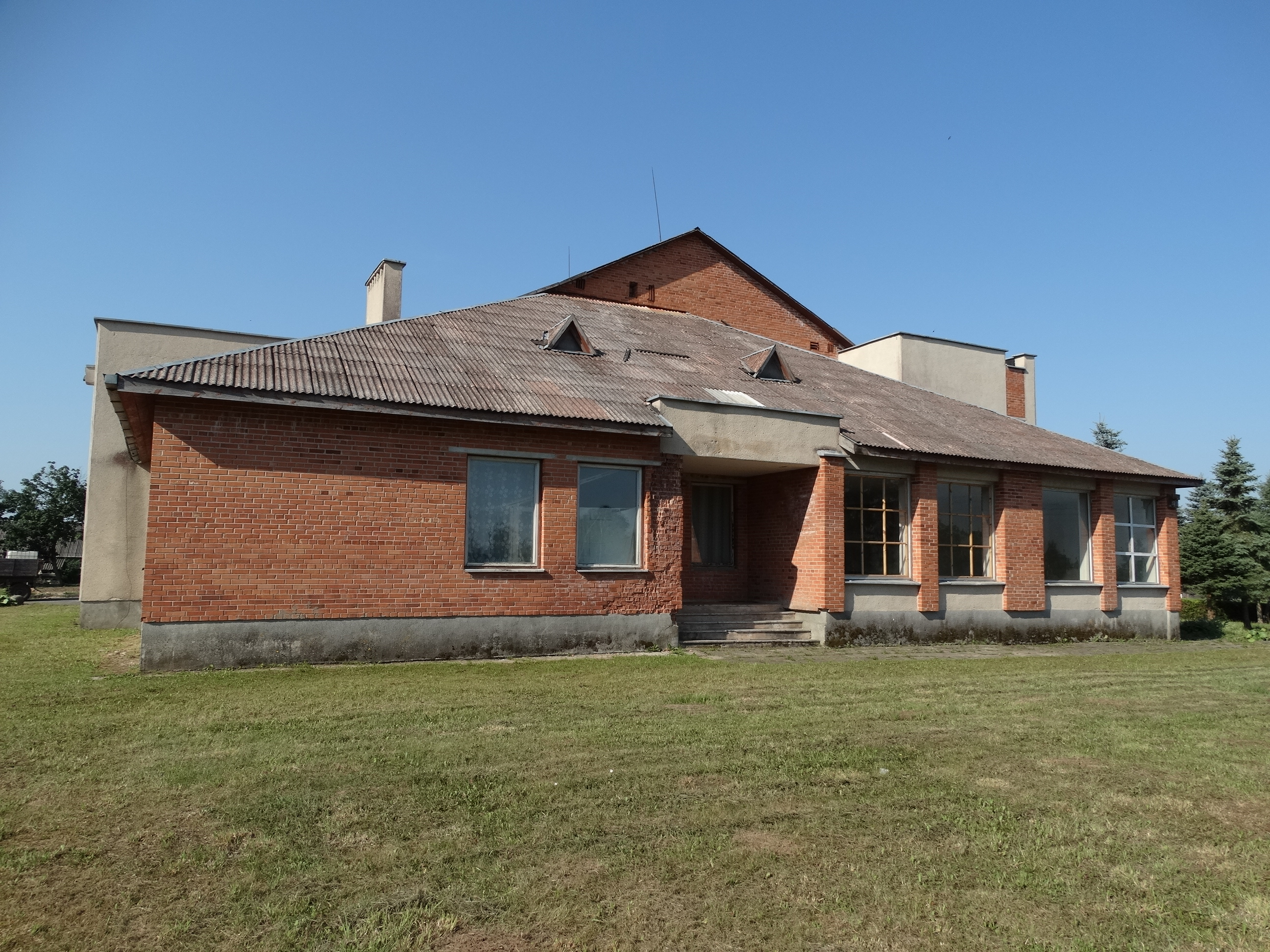 School, Lukštai, Rokiškis District, Lithuania